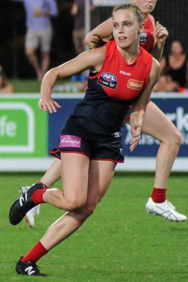 Sarah Lampard during the AFL Women's round six match between Adelaide and Melbourne on 11 March 2017 at TIO Stadium in Darwin, Northern Territory